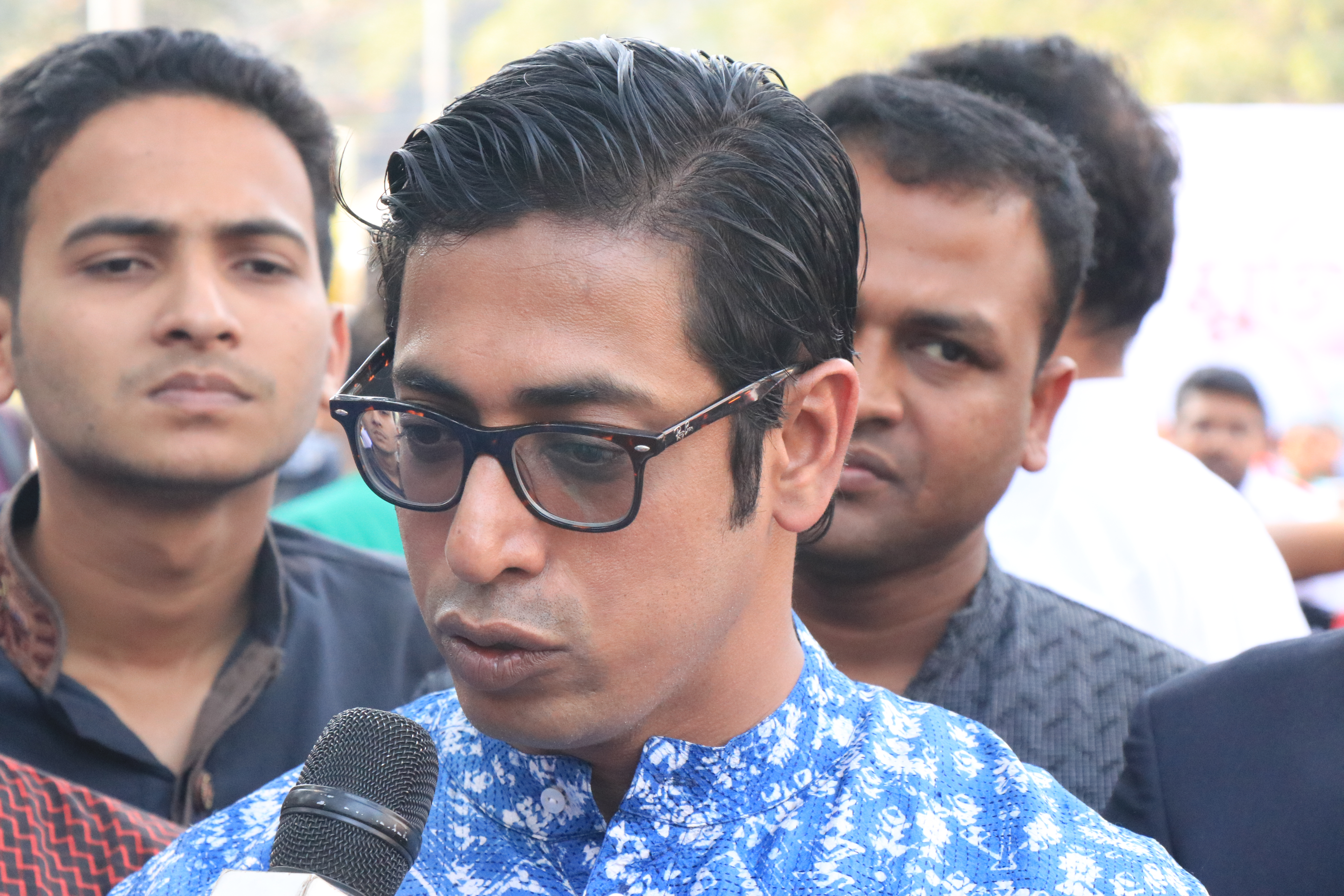 Nahim Razzaq, Member of Parliament, Bangladesh